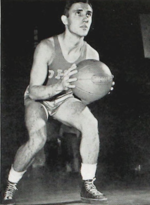 Ohio State University Basketball Player Jimmy Hull in 1939